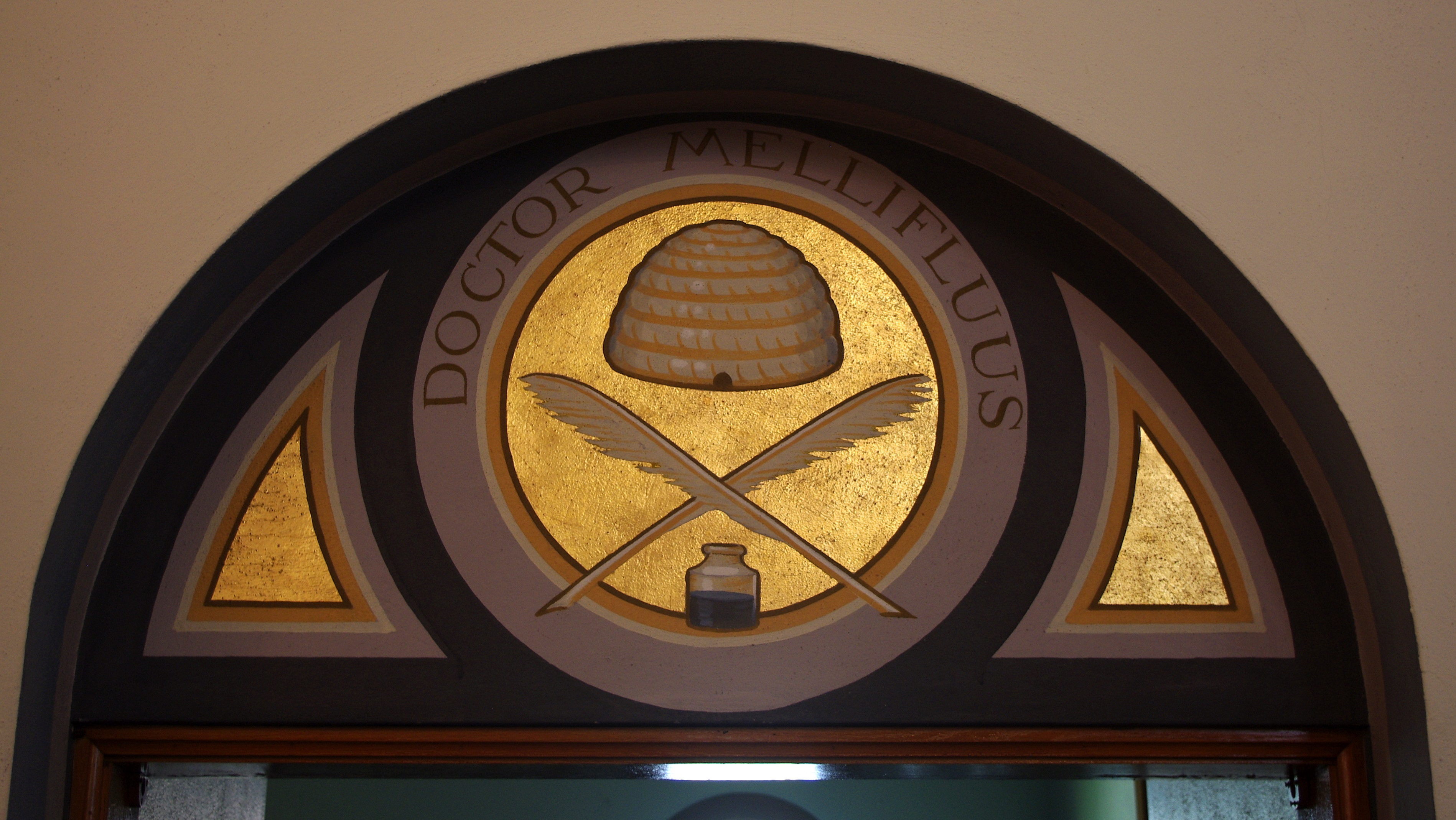 Saint Bernard Catholic Church (Burkettsville, OH) - interior, sacristy door, Doctor Mellifluus